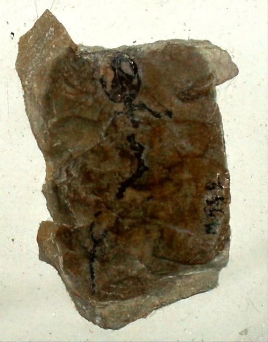 Fossil of Celtedens megacephalus, an extinct amphibian